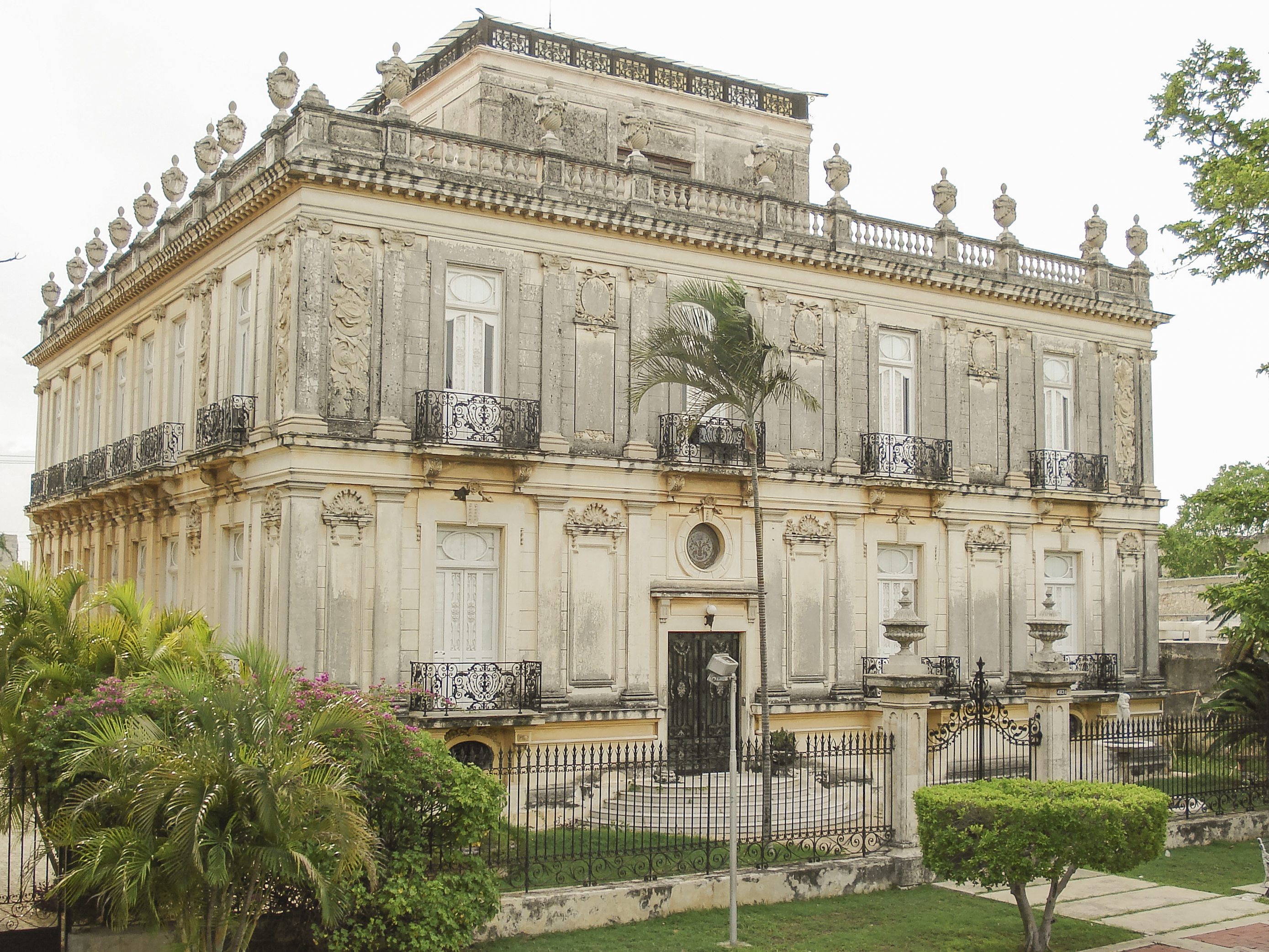 One of Merida's twin mansions “Las Casas Gemelas”